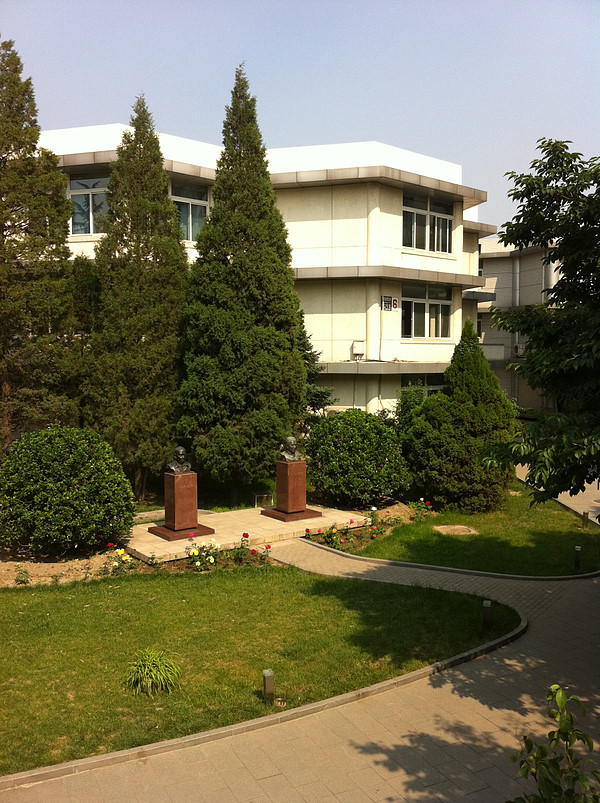 BHSF Library